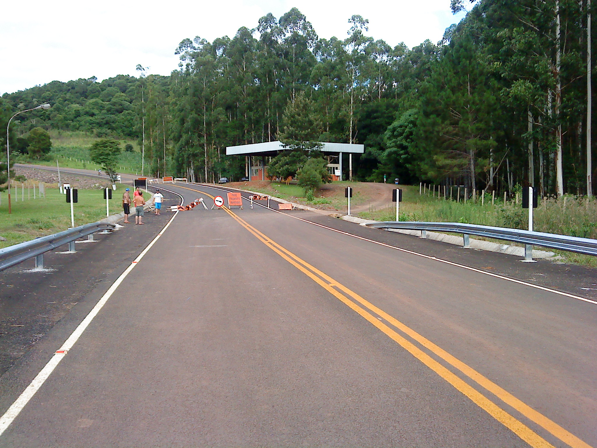 Brazil/Argentina in Paraíso, Santa Catarina, Brazil